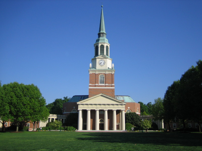 I took this picture on May 10, 2005 at graduation time. It is a picture from the center of Hearn Plaza looking at Wait Chapel with Reynolda Hall to the rear. Efird Hall is to the left and Huffman Hall is to the right from the vantage point of the photograph. JHMM13 (T